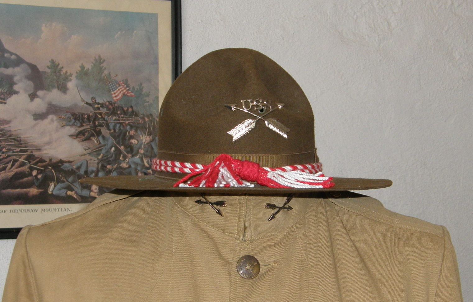 crossing arrows